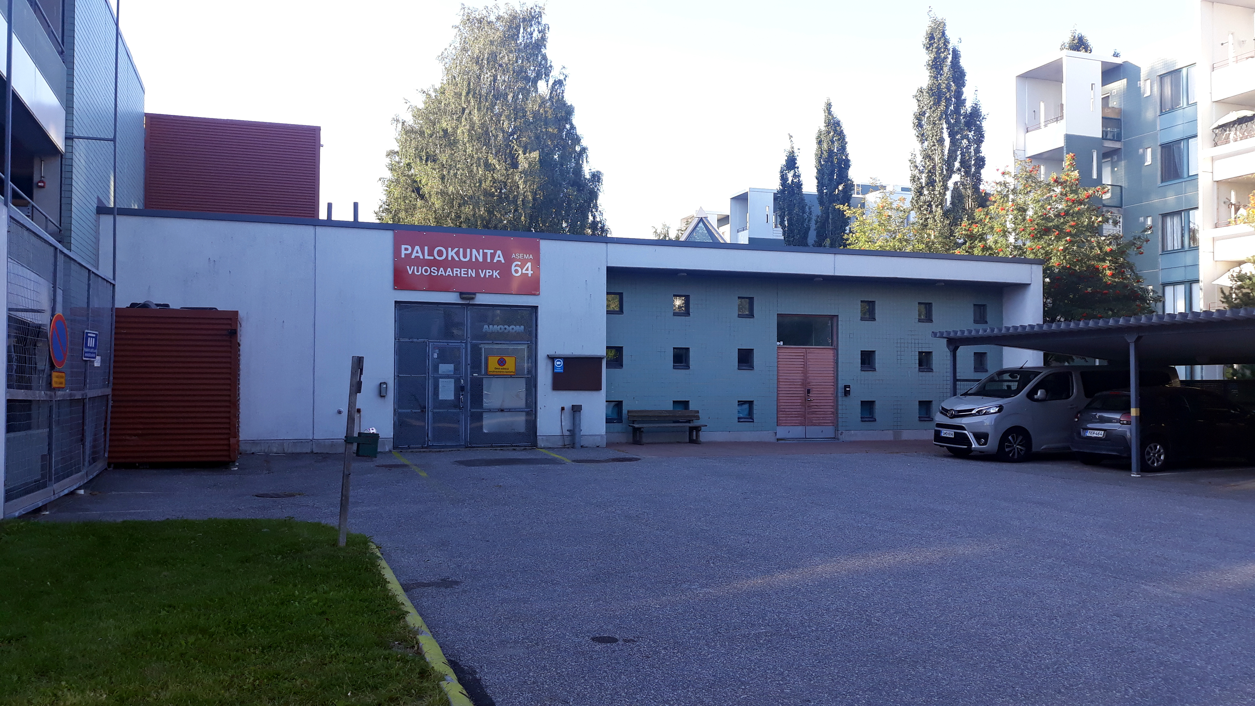 Station of the Vuosaari volunteer fire department in Helsinki.